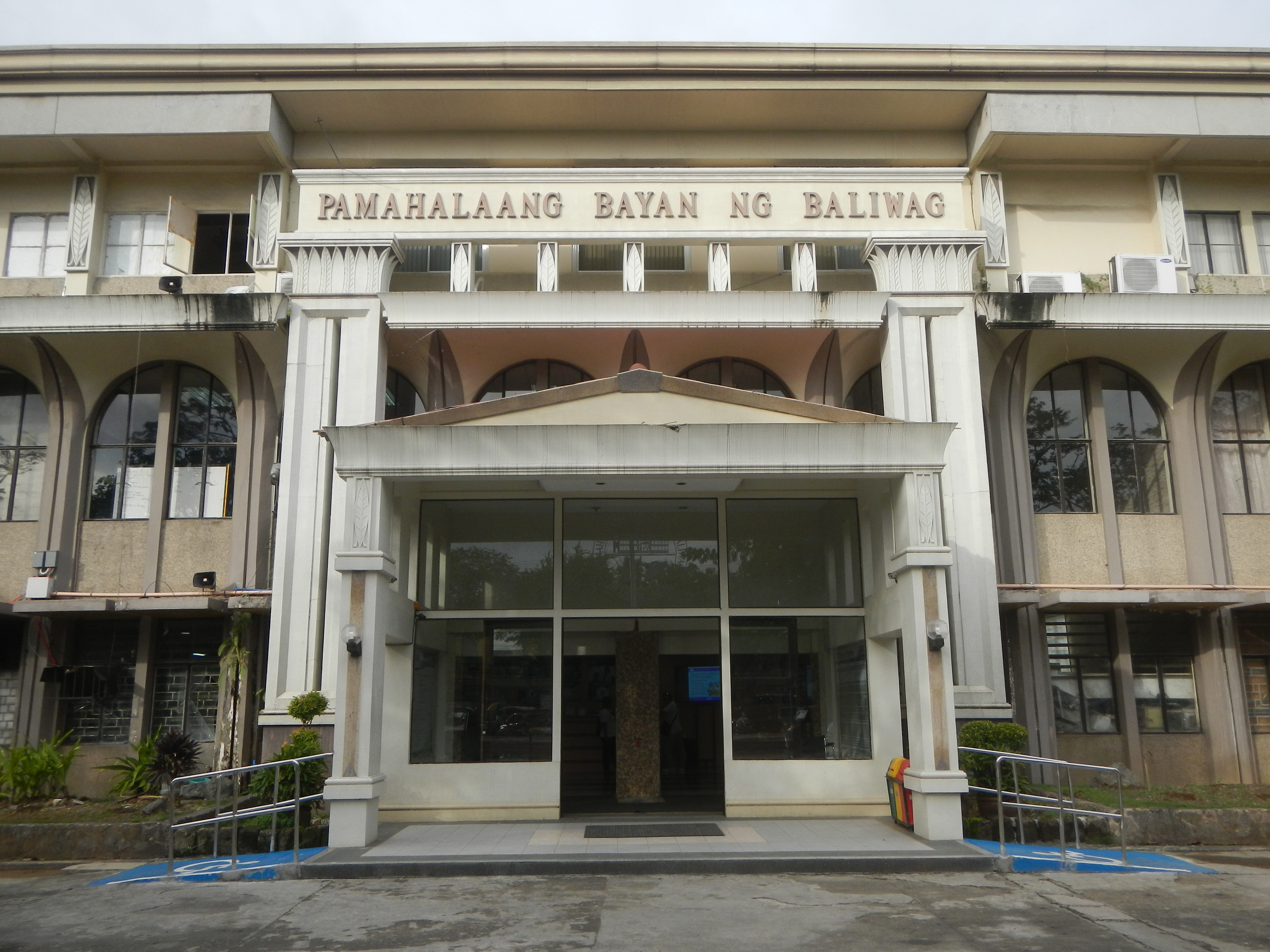 Interiors of Baliuag, Bulacan Town Hall and Municipal Office Buildings 43rd Nutrition Month, July, 2017 Baliuag, Bulacan Maps of Baliuag, Bulacan in Barangay Bagong Nayon 14°57'41"N 120°53'54"E and Poblacion, Baliuag, Bulacan, Bulacan province, (accessed from Cagayan Valley Road, Baliuag-Pulilan-Guiguinto, Bulacan) Pan-Philippine Highway, also known as the Maharlika "Nobility/freeman" Highway or Asian Highway 26, Cagayan Valley Road (Note: Judge Florentino Floro, the owner, to repeat, Donor Florentino Floro of all these photos hereby donate gratuitously, freely and unconditionally all these photos to and for Wikimedia Commons, exclusively, for public use of the public domain, and again without any condition whatsoever).